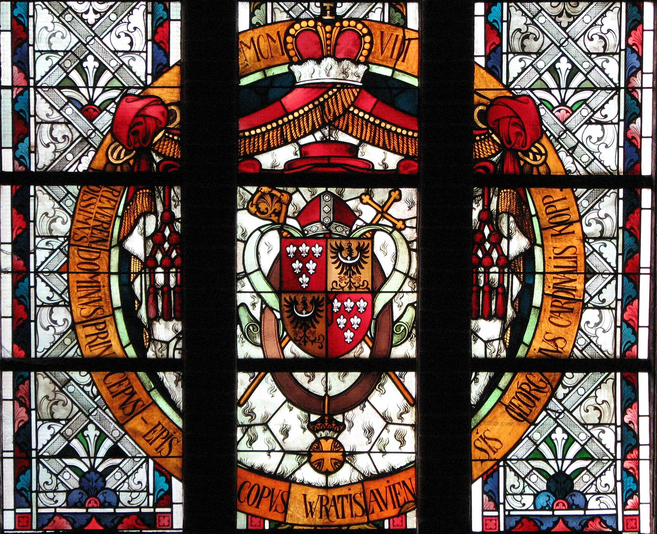 Stained glass window in the upper presbytery of the Basilica of St. Louis King in Katowice, Poland, XX century; coat of arms of German Cardinal Georg von Kopp (1837-1914). Inscription: Reverendissimus Dominus Princepus (correctly: Princeps) - Episcopus Wratislaviensis Georgius Cardinalis Kopp MCM VIII